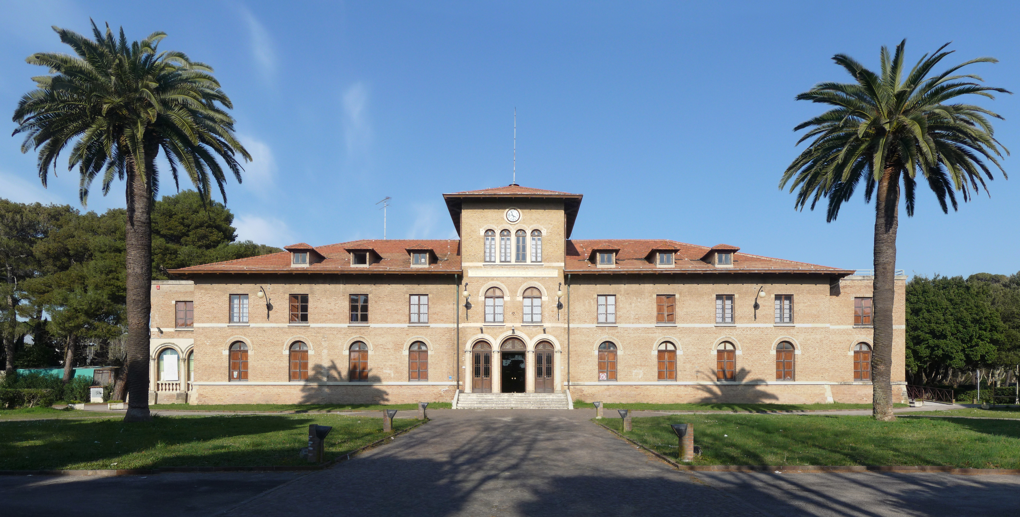 Teatro Solvay, Rosignano Marittimo, Province Livorno, Italy